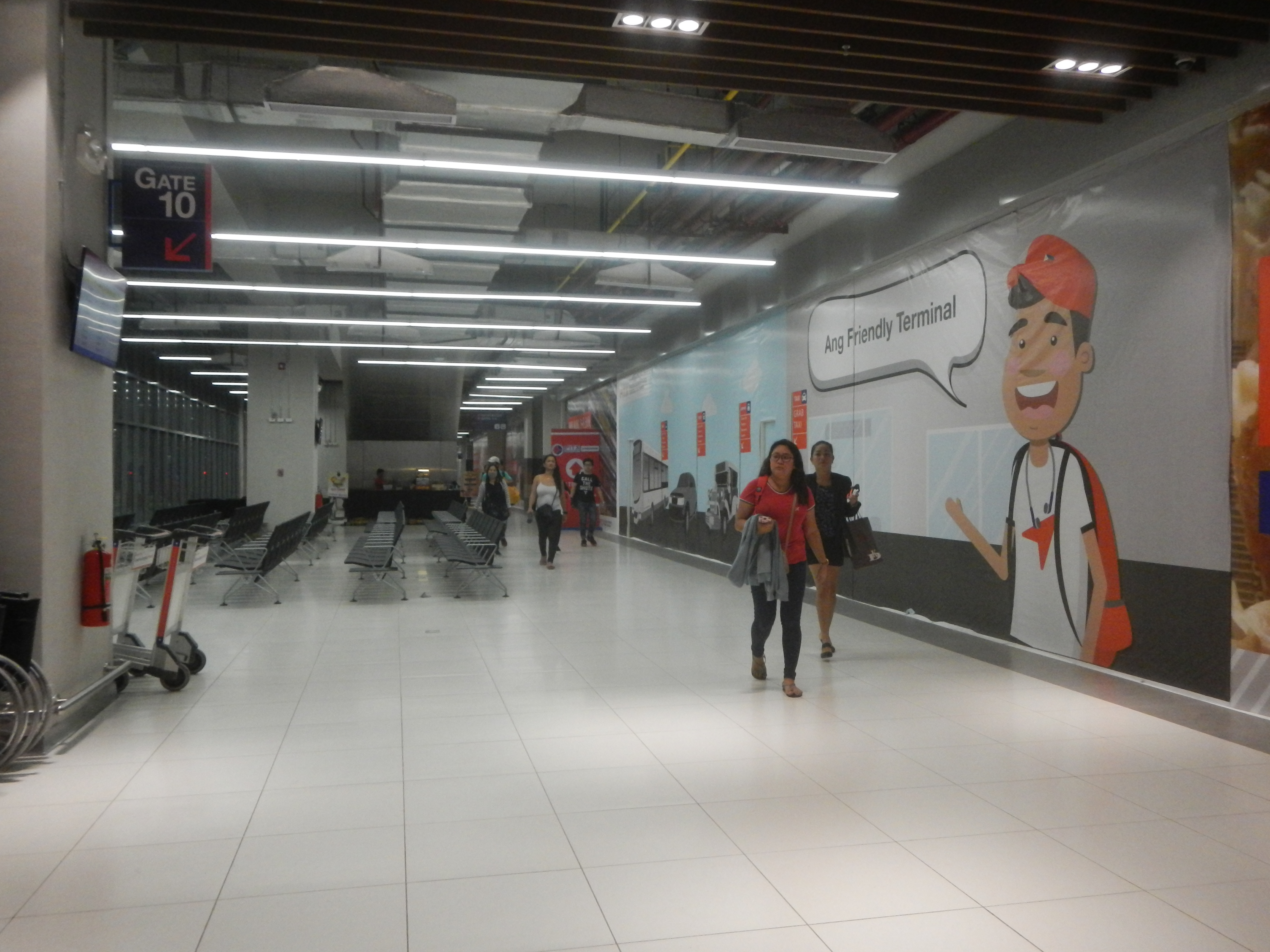 Parañaque Integrated Terminal Exchange (Note: Judge Florentino Floro, the owner, to repeat, Donor Florentino Floro of all these photos hereby donate gratuitously, freely and unconditionally Judge Floro all these photos to and for Wikimedia Commons, exclusively, for public use of the public domain, and again without any condition whatsoever).